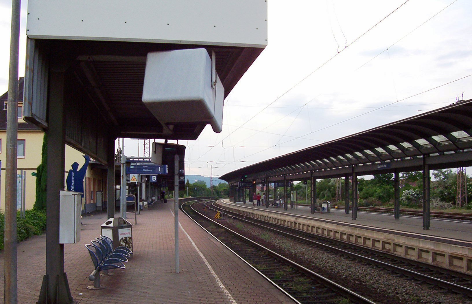 Platforms of the station Saarlouis central station in the viewing direction Dillingen